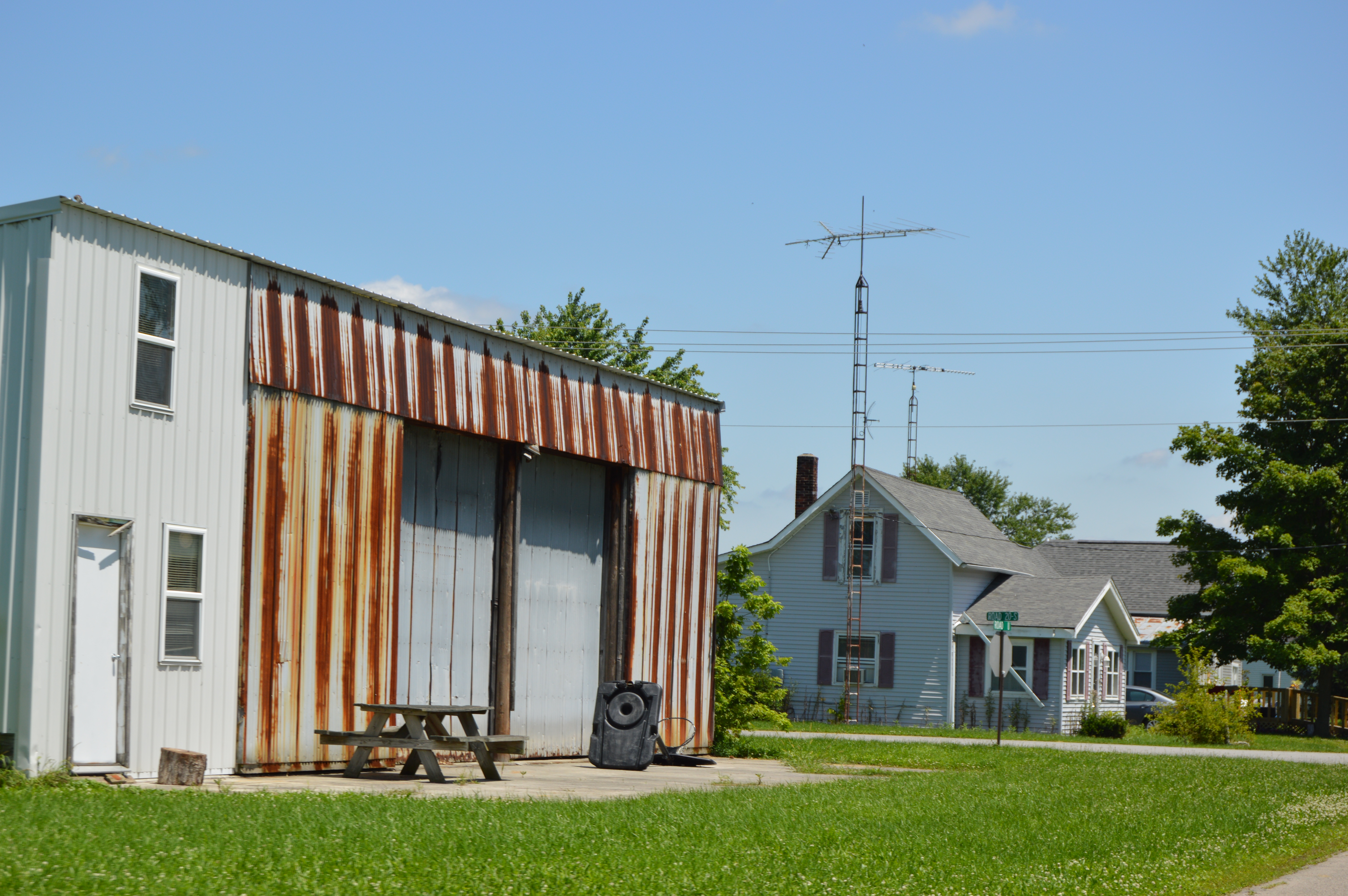 Buildings on the northern side of Road U at the Road 20S intersection at Rushmore in Jennings Township, Putnam County, Ohio, United States.